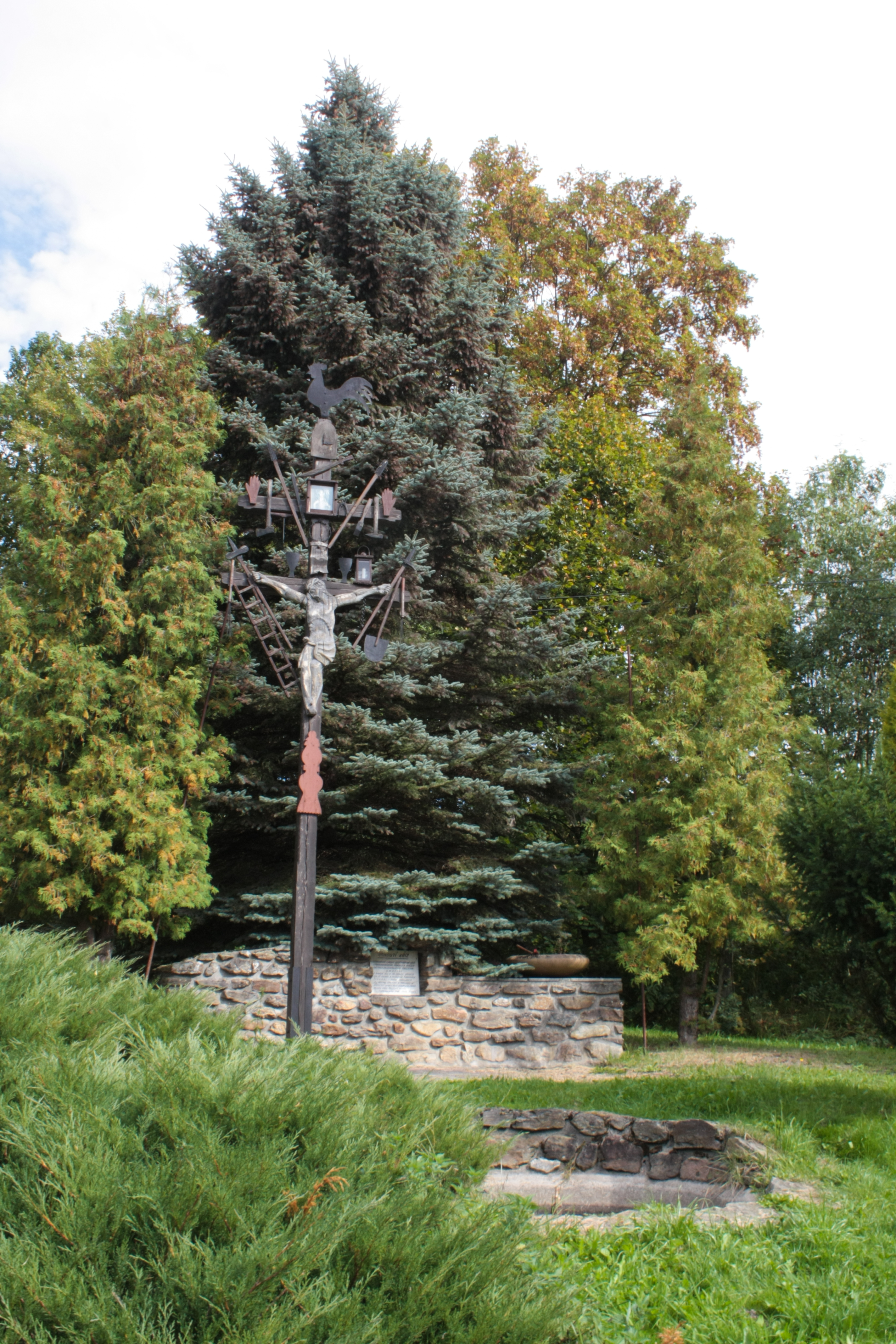 Úbislav, Prachatice District, Czech Republic Object location49° 07′ 16″ N, 13° 40′ 00″ E This photograph was taken within the scope of the Czech 'Photo Workshops' grant.